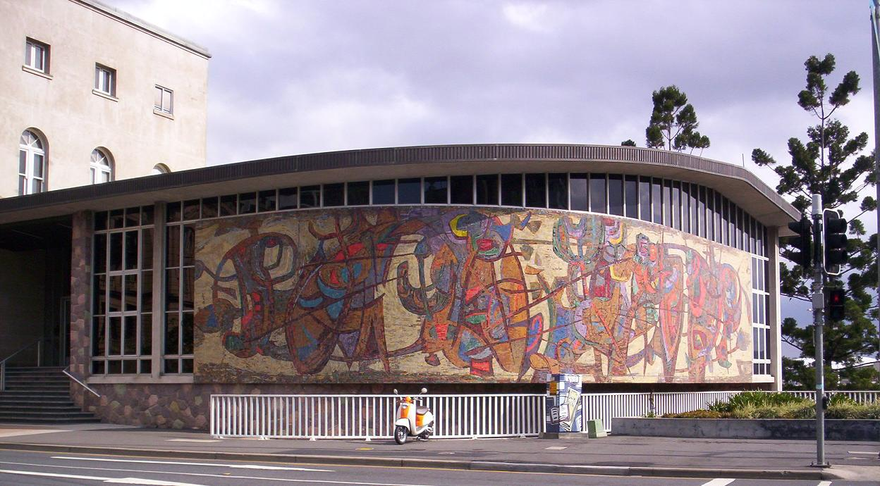 Old State Library Mural ( this photograph was taken by Figaro )